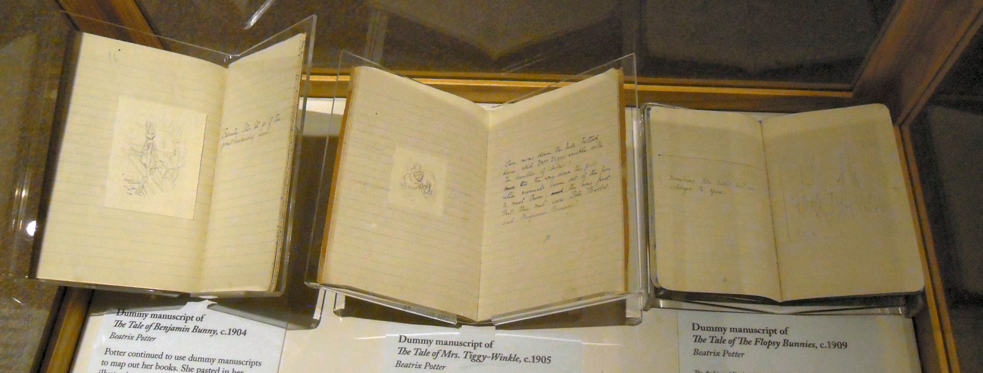 Three dummy manuscripts created by Beatrix Potter to see how the printed book will look